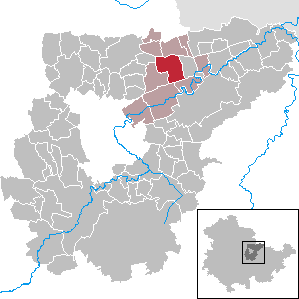 Pfiffelbach in Thuringia - District Weimarer Land